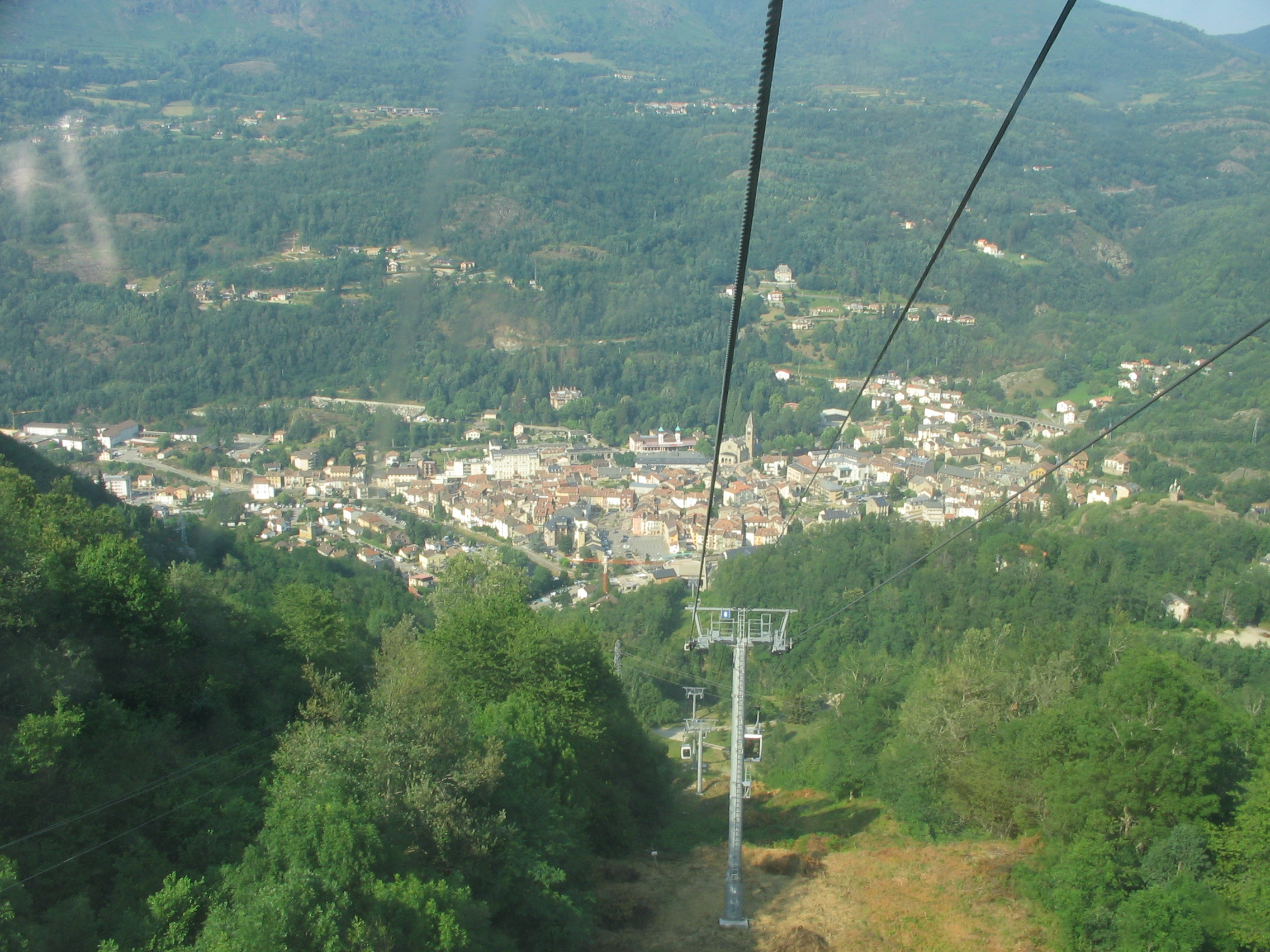 Ax 3 Domaines